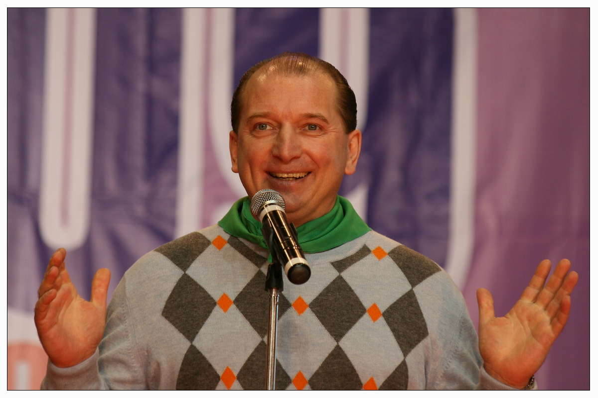 Governor of Samara oblast Vladimir Artjakov